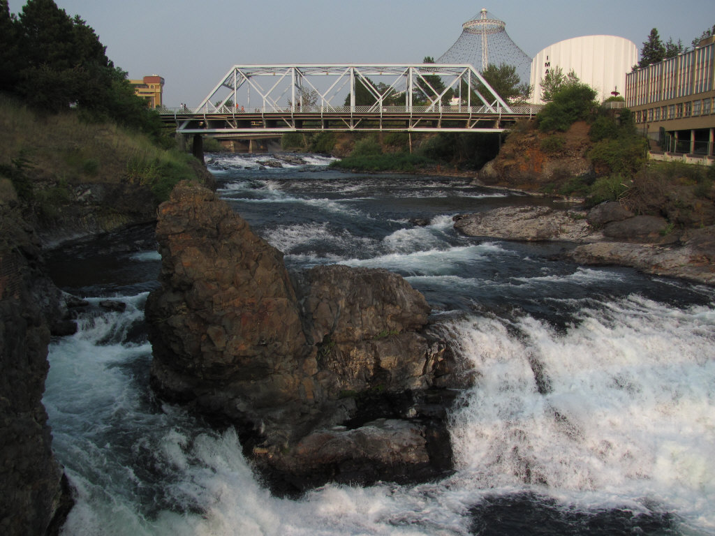 Waterfalls in Riverfront Park along Spokane River, downtown Spokane. Photo appears to be from the south shore of Canada Island, with the truss bridge being North Howard Street.